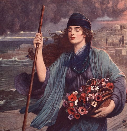 Nydia, the blind girl of Pompei